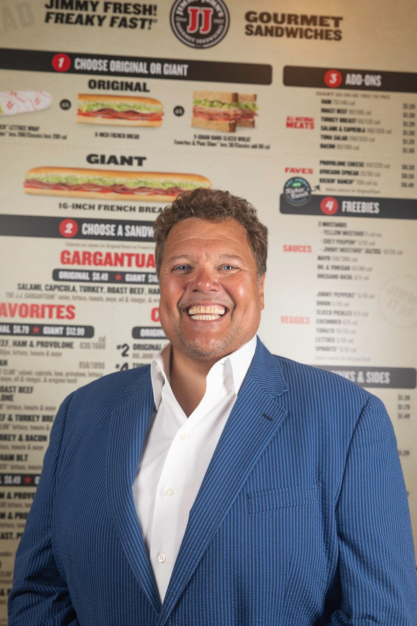 A 2018 headshot of Jimmy John's owner Jimmy John Liautaud taken in front of a Jimmy John's menu.